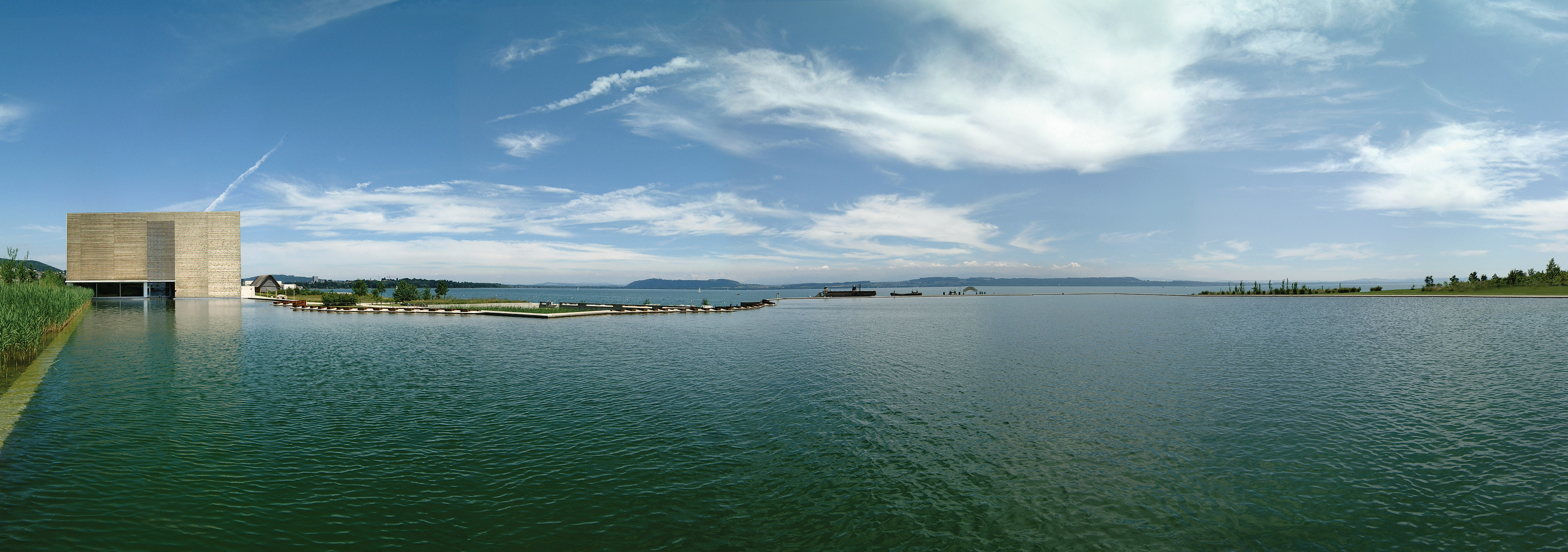 The Laténium, on Neuchatel lakeside; on the foreground, the piscicultural raised pool, which indicates the lake level till the end of 19th century. Picture by J. Roethlisberger / Laténium.